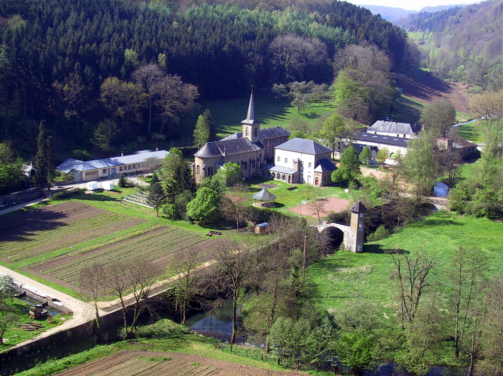 View on Marienthal, Luxembourg